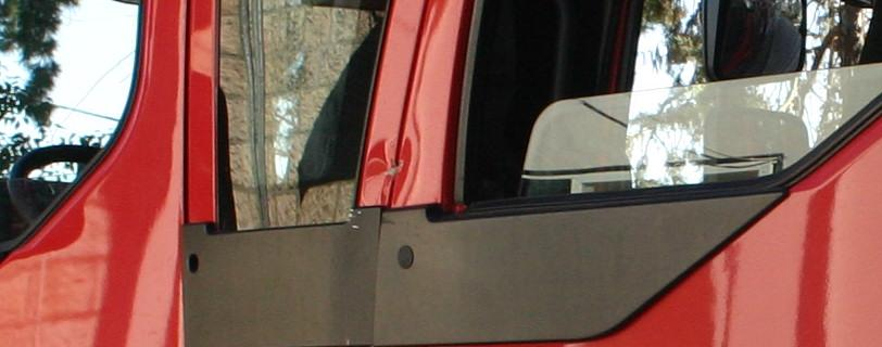 Shot at Firetruck of Al-Bireh